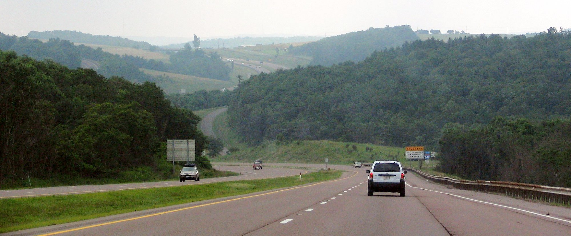 Interstate 68 Driving East, 18 Miles from Cumberland.